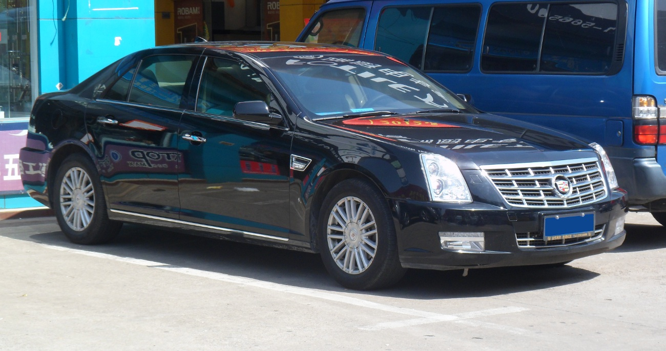 Cadillac SLS facelift photographed in Shanghai, China.